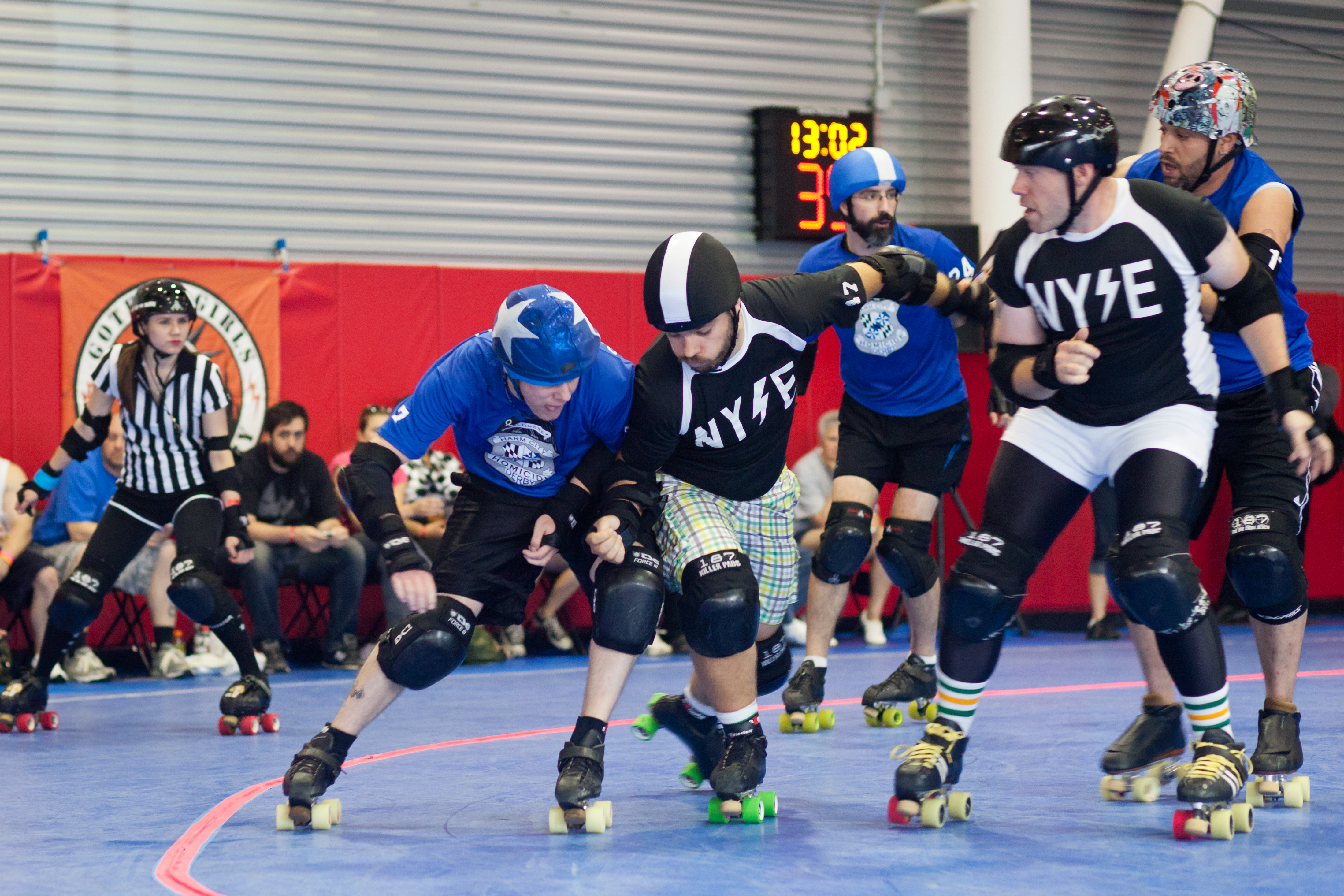 New York Shock Exchange take on Harm City Homicide in men's roller derby. Shock Exchange's pivot attempts to shoulder check Harm City's jammer; a watchful outside pack referee checks that no penalties are committed.